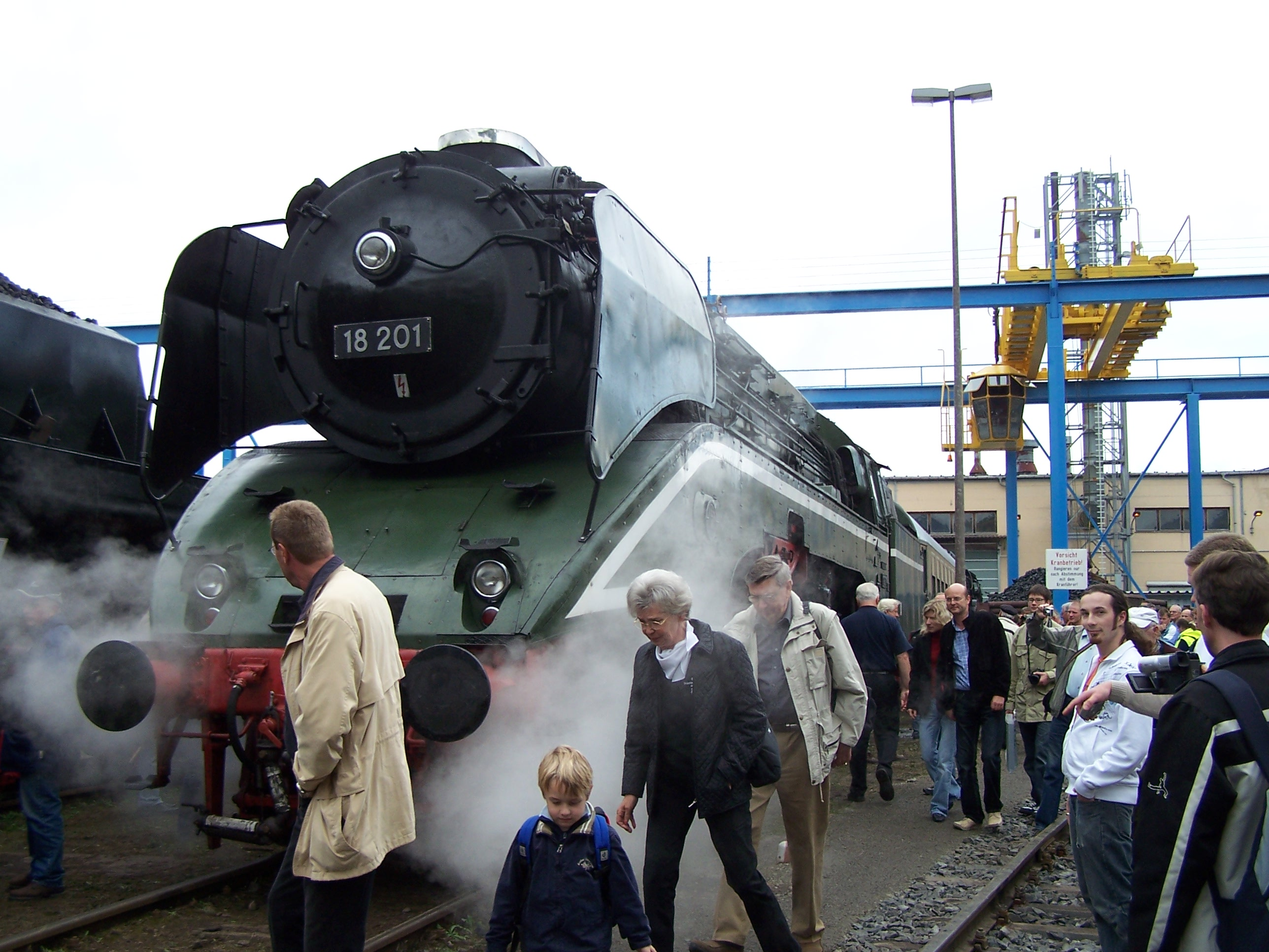 express train-locomotive 18 201 in Meiningen Steam Locomotive Works at the Dampfloktage, Germany, September 1st, 2007